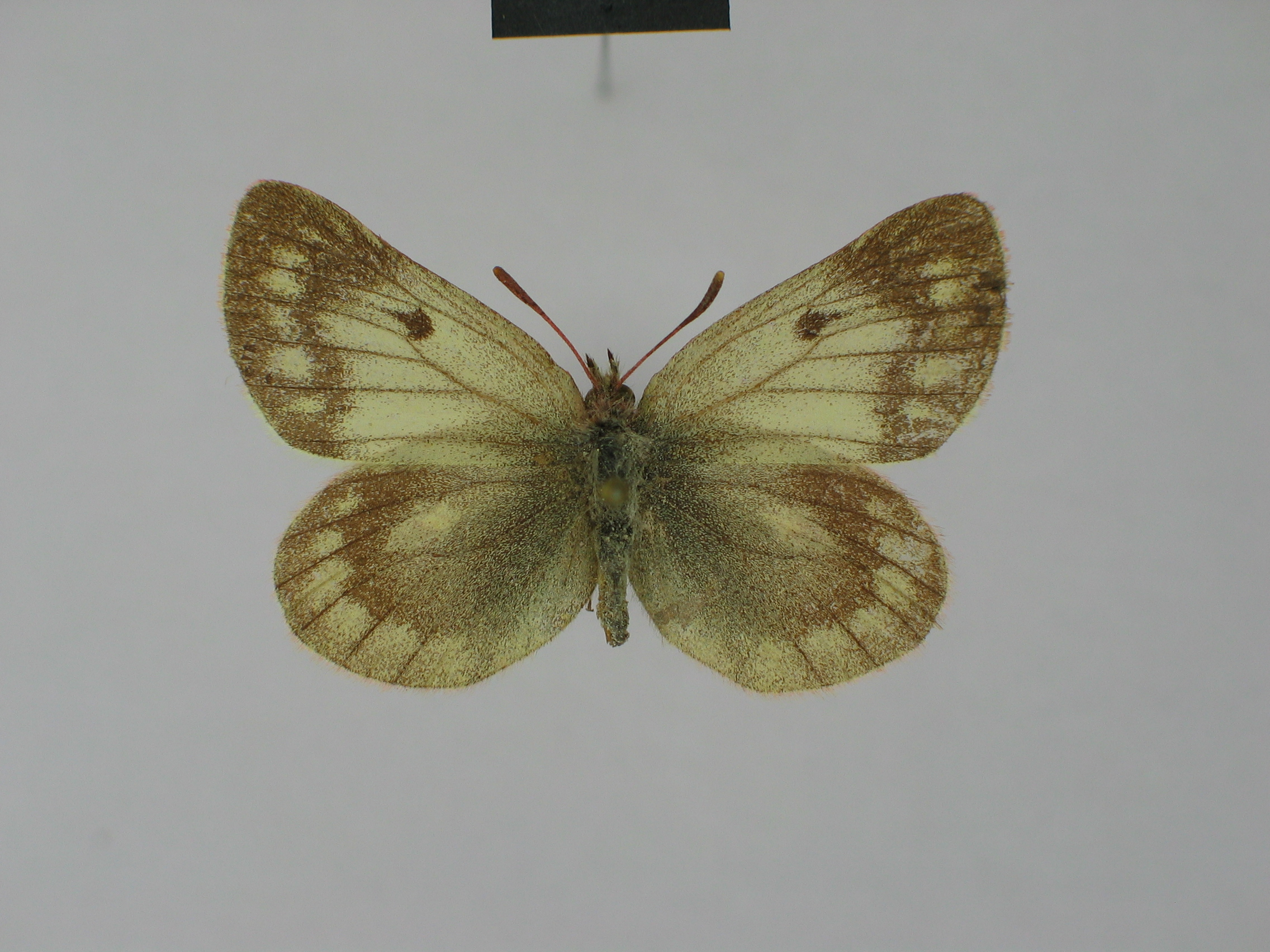 Syntype of the species Colias cocandica culminicola from the collection of the Zoologische Staatssamlung München; ♀ dorsal side; scalebar=1 cm